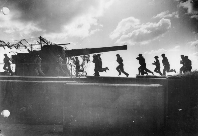 Royal Artillery gun crews run to their positions at a 9.2-inch coast defence gun during a practice shoot at Culver Point Battery on the Isle of Wight, England.